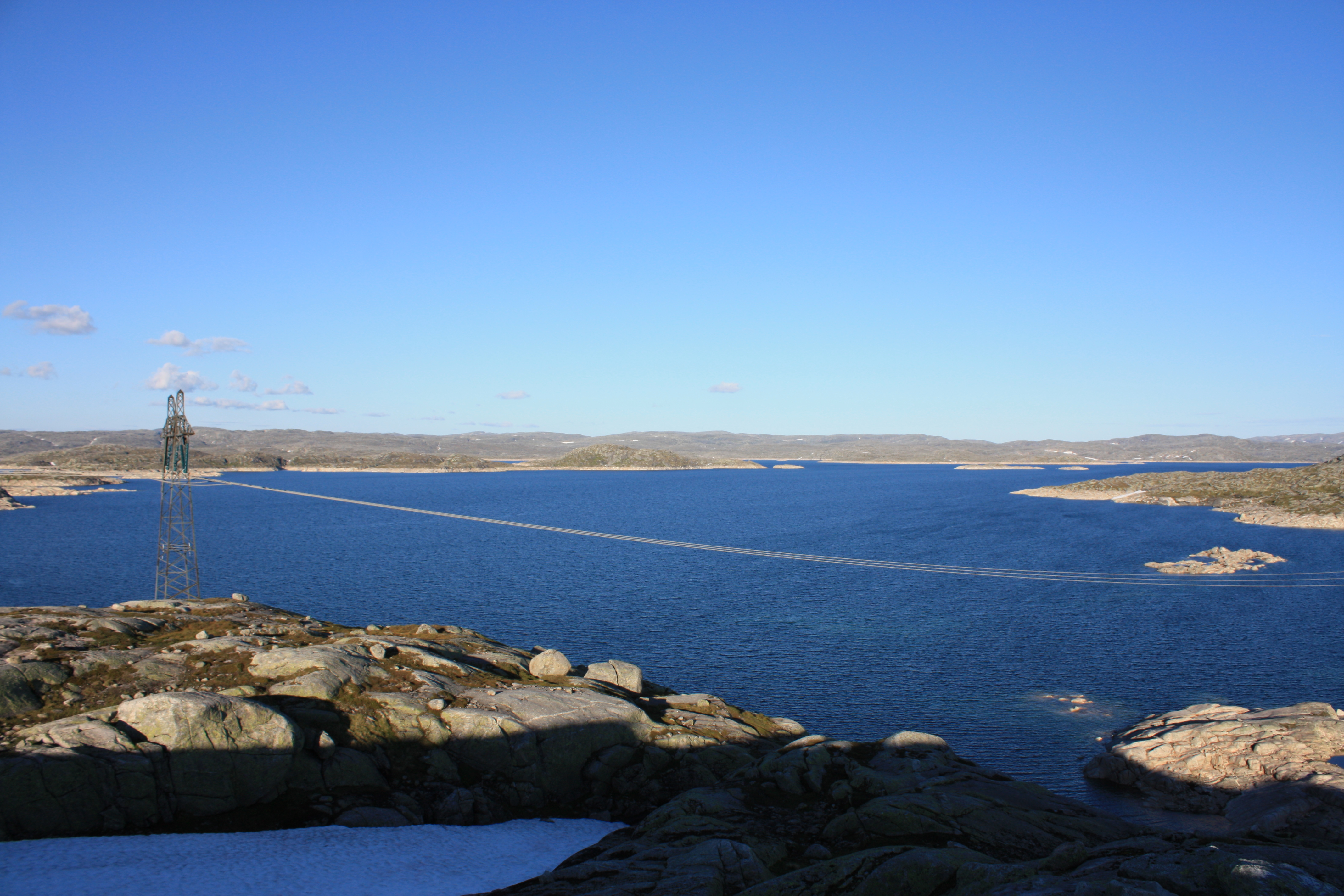 Blåsjø as seen from the road to Storvassdammen, part of Ulla-Førre